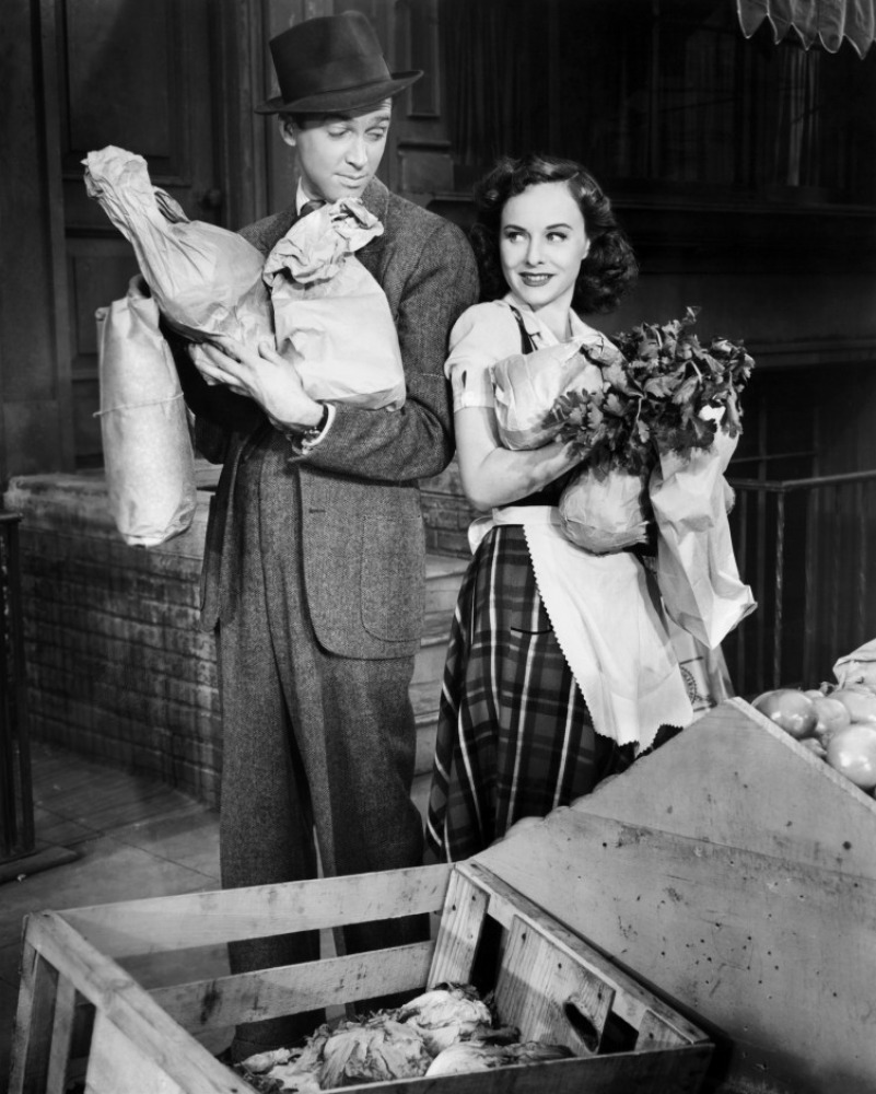 James Stewart and Paulette Goddard in Pot o' Gold (1941) - cropped screenshot